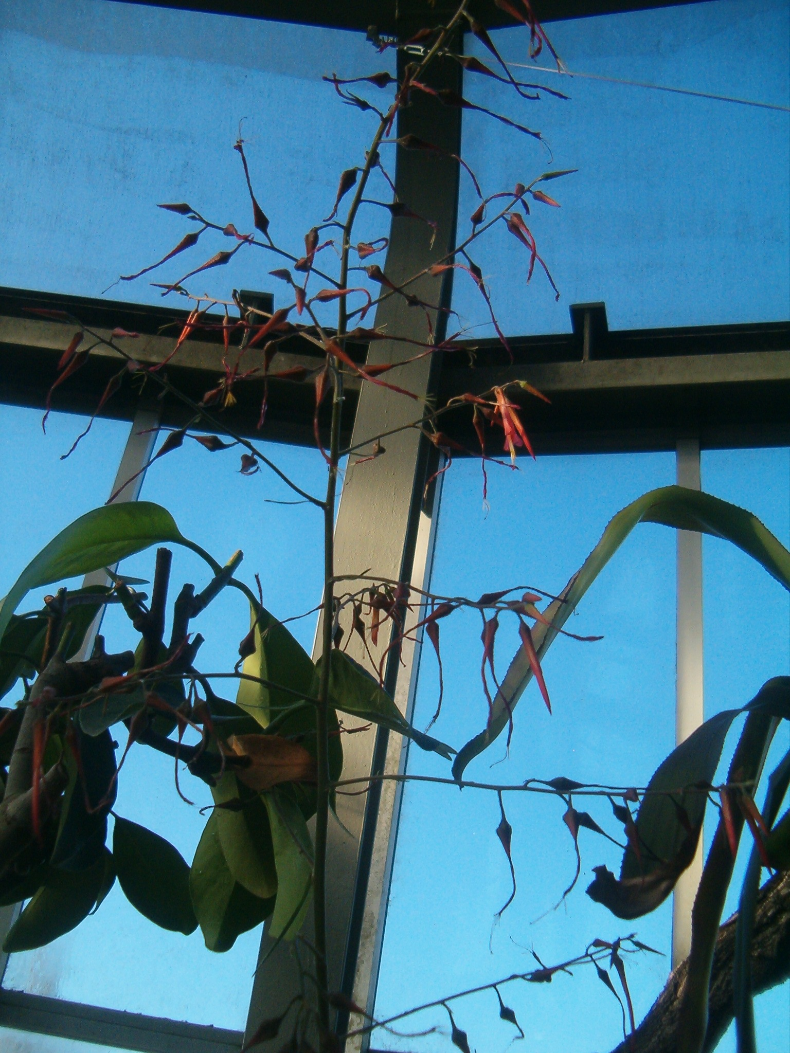 At Botanical Gardens Berlin-Dahlem Species Pitcairnia villetaensis